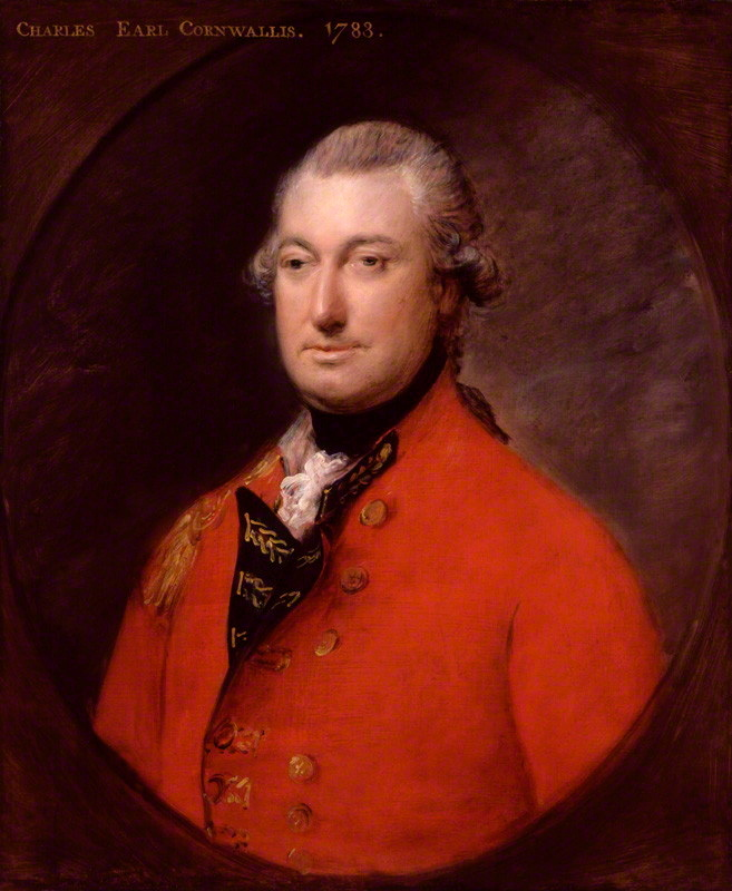 Portrait of Lord Cornwallis (1738 - 1805), two-time Governor-General of India from 1786 to 1793 and in 1805